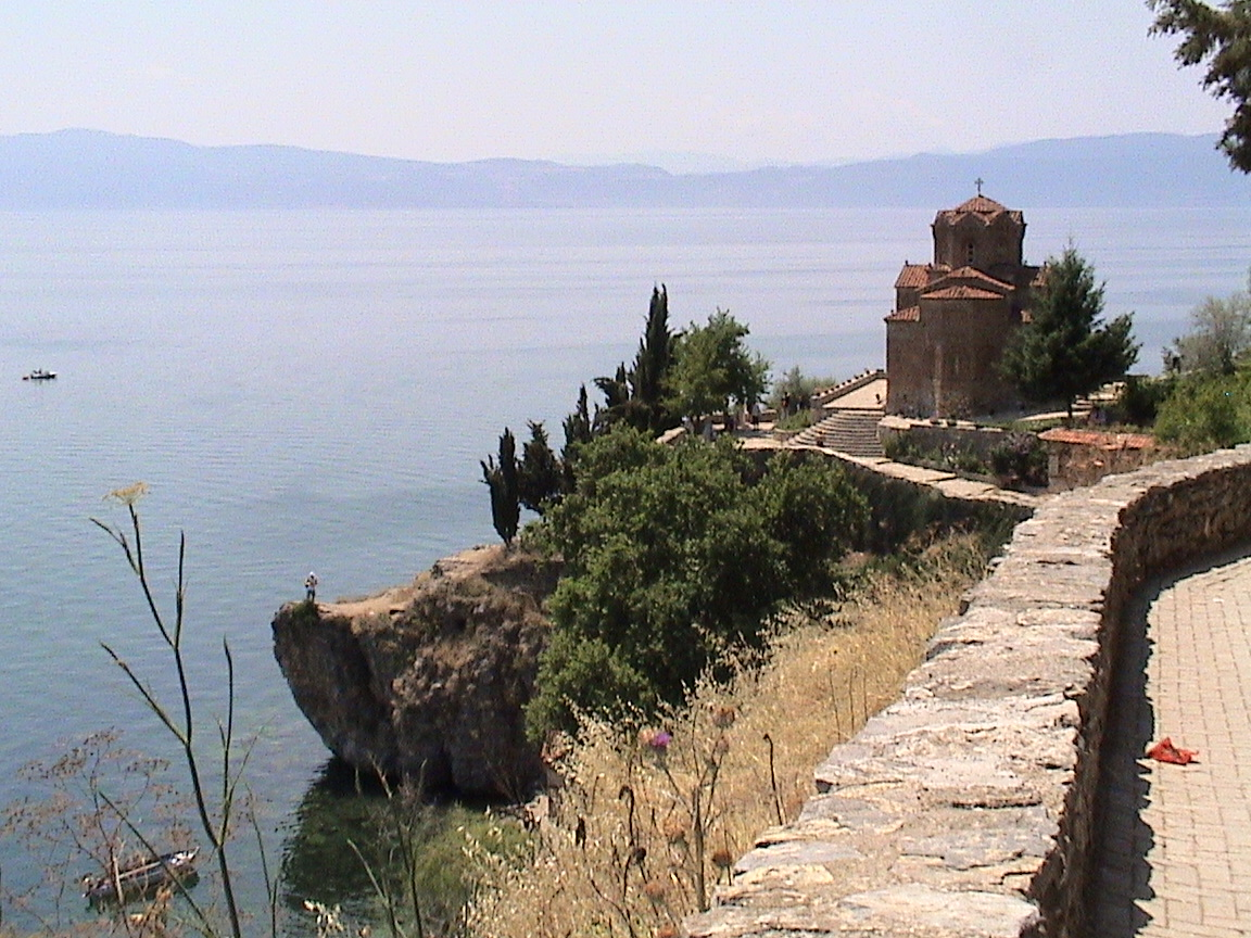 Church of St. John of Kanevo in Ohrid, Republic of Macedonia